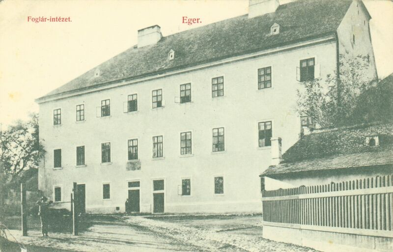 Postcard from Eger, Hungary